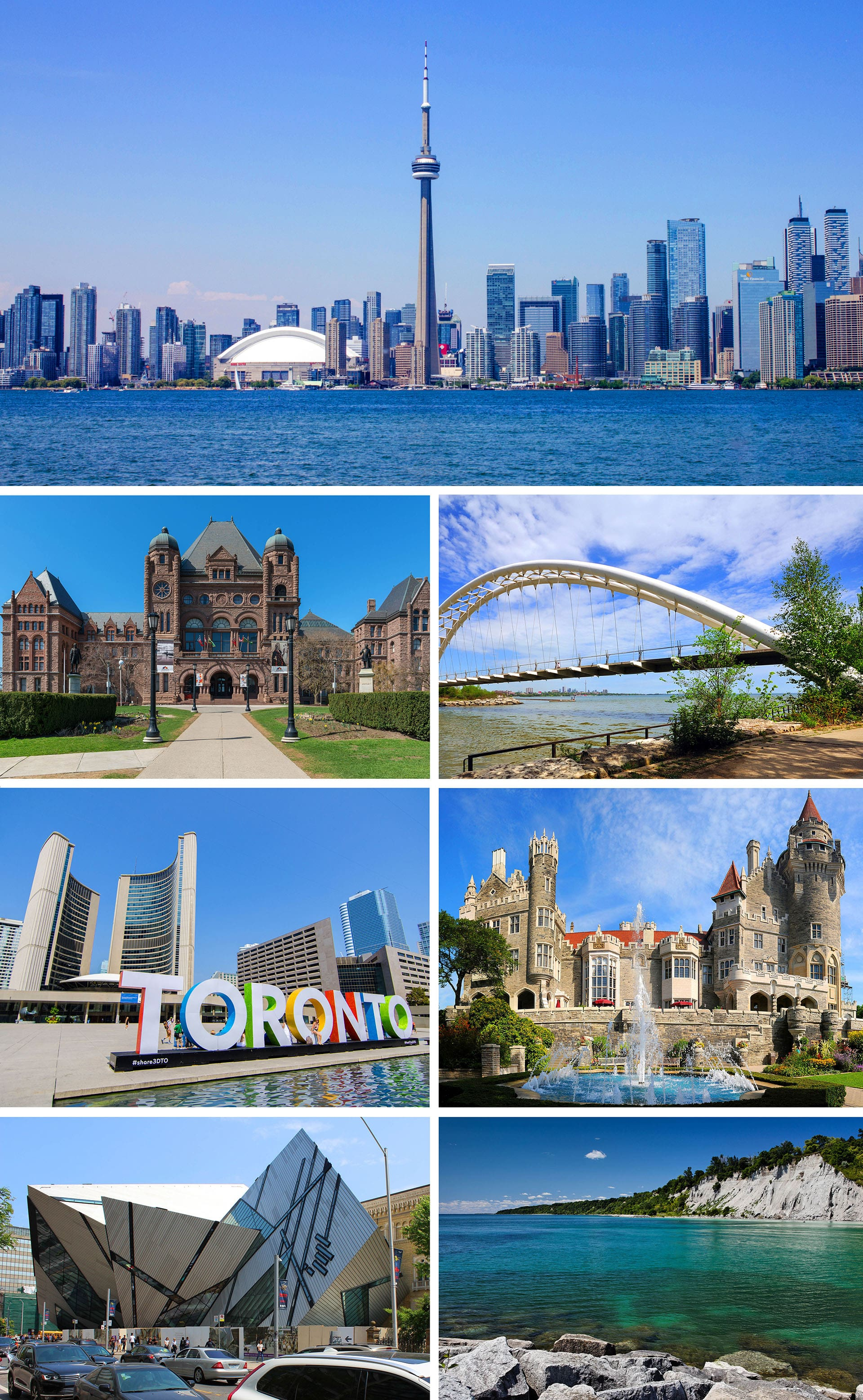 This is a montage of Toronto for 2020